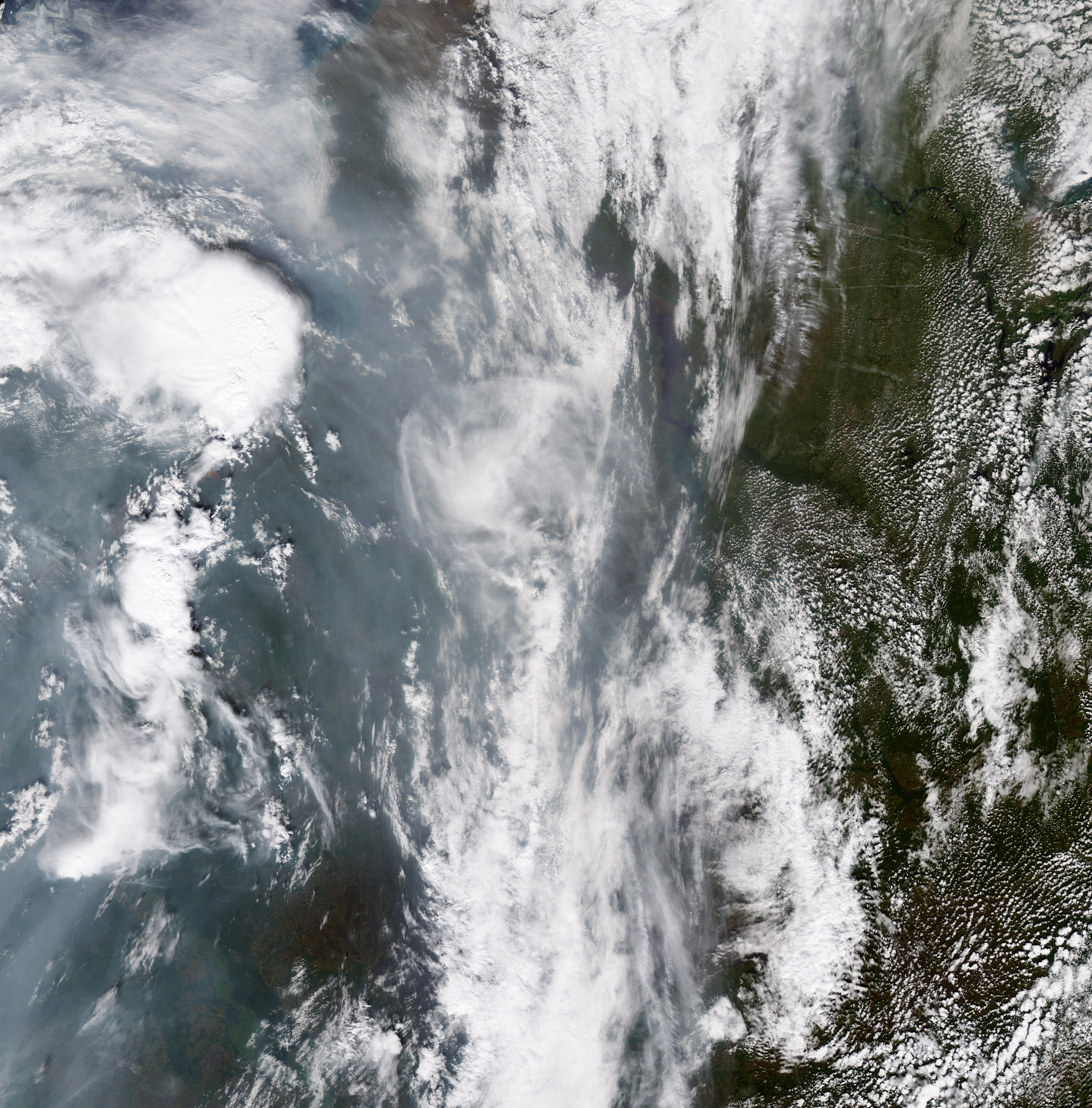 This is a true-colour view of far northern Russia on August 1, 2010. This image provides rare evidence that fire clouds can pull smoke into the stratosphere. The circular cloud surrounded by hazy, gray-white smoke is a pyrocumulonimbus, a powerful thunderstorm that forms over large fires. Weather models and other satellite data reveal that it formed over fires in western Russia on July 30, then drifted northward. Fires heat the air, pushing it high into the atmosphere where it can cool and form clouds with ice crystals. The crystals conduct electricity, forming a strong, dangerous thunderstorm. Pyrocumulonimbus clouds can produce strong winds and tornadoes that can further fuel the fire’s growth. In the past decade, it has become clear that pyrocumulonimbus clouds also act like chimneys, pulling smoke into the stratosphere. Once in the stratosphere and above the weather, smoky aerosols can linger for a long time and spread around the globe. These aerosols can warm the stratosphere and cool the air below by absorbing energy from the Sun. However, this image shows one of the few pyrocumulonimbus clouds that have ever been documented, so it isn’t clear how often fires put aerosols in the stratosphere and how large an impact they have on weather and climate.